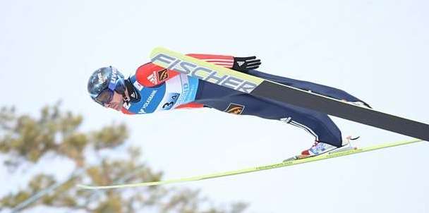 Dimitry Vassiliev during team competition of FIS Ski-Flying World Championships 2012 in Vikersund.